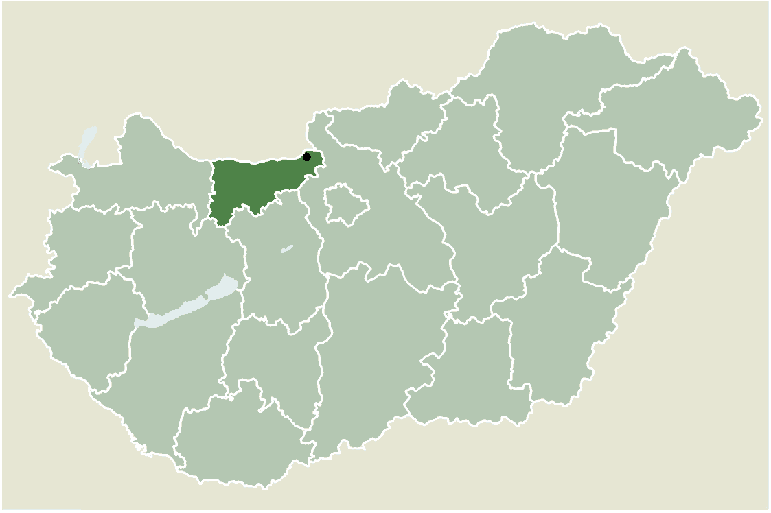 The county of Komárom-Esztergom. The dot is Esztergom